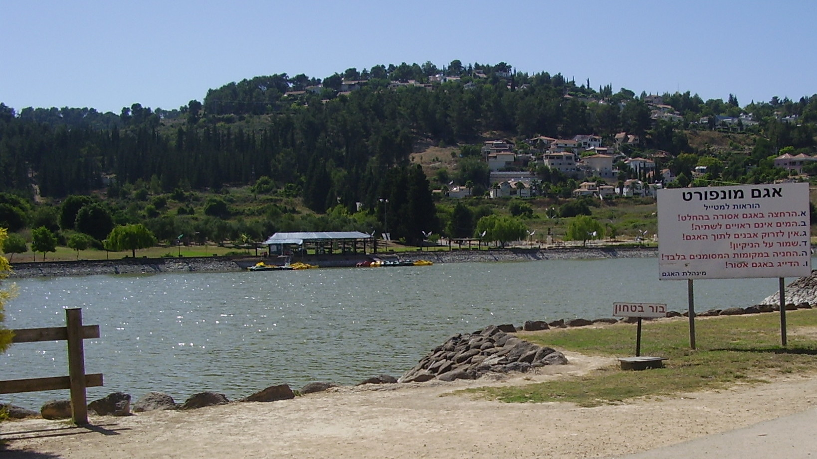 montfort lake in ma'alot, upper galilee אגם מונפור במעלות